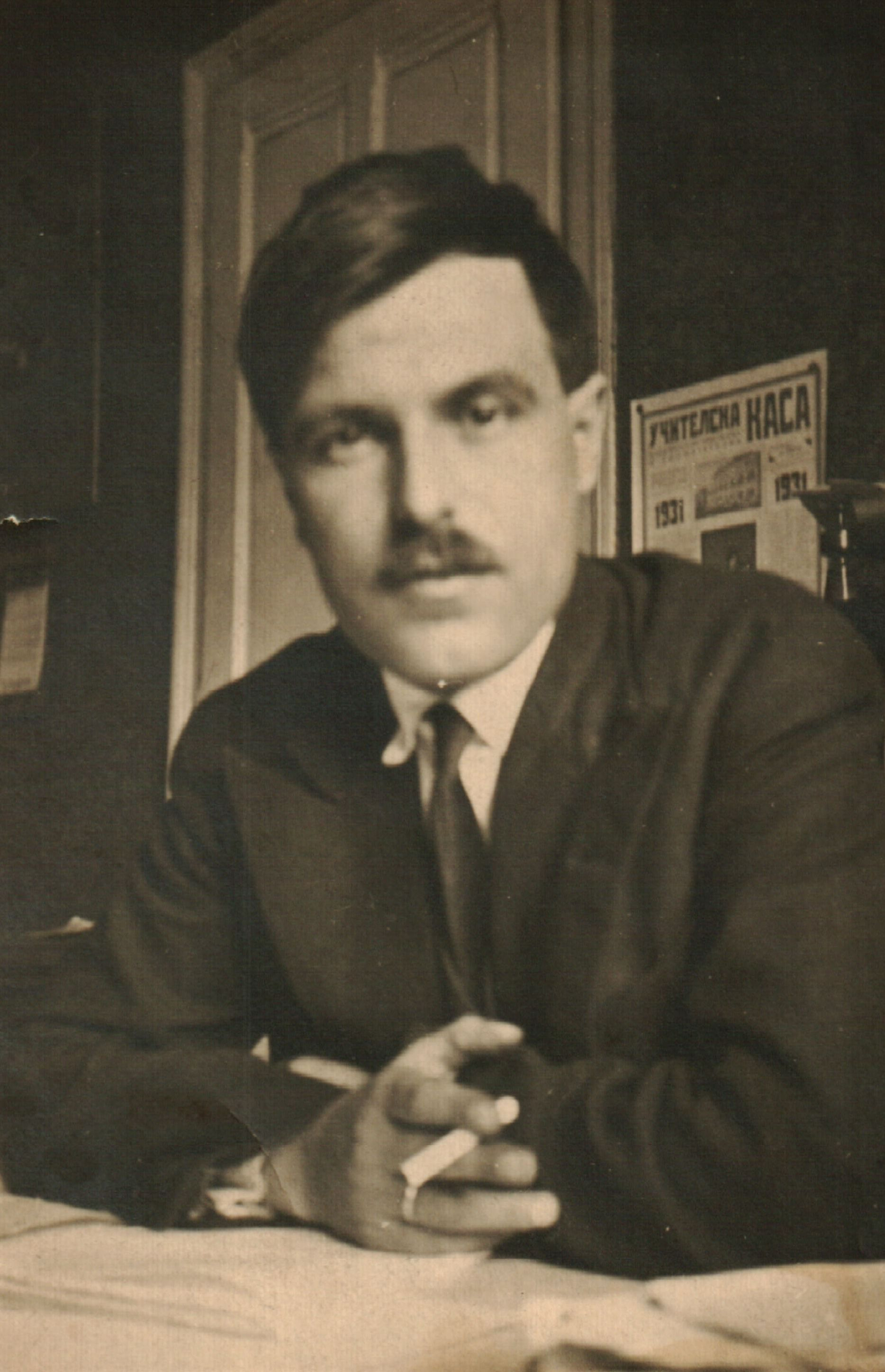 Bulgarian writer Angel Karaliychev with dedication to Tsveta and Vladimir Vassilev. On the back side is inscription: "To Tsveta and Vlado for memory from Angel."